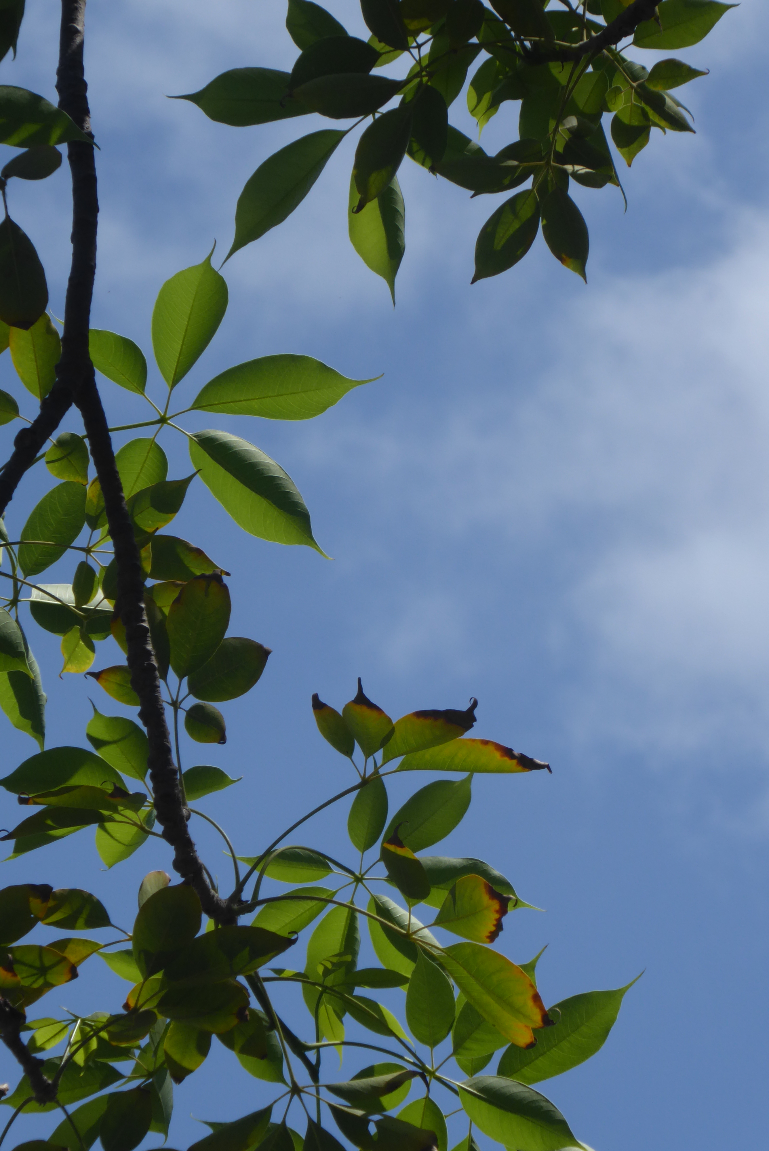 Edith Wolfson Park